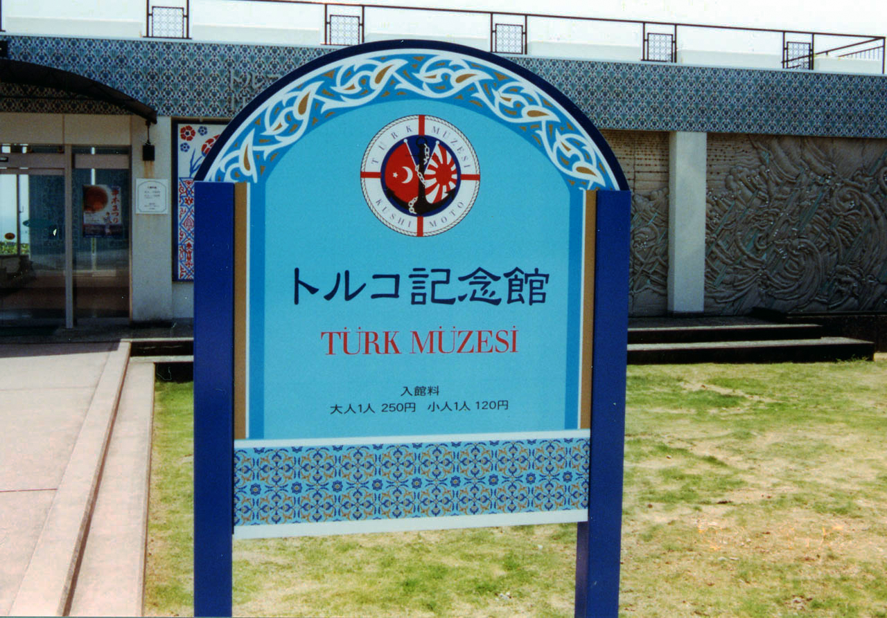 Turkish Memorial and Museum, Kushimoto, Wakayama prefecture, Japan